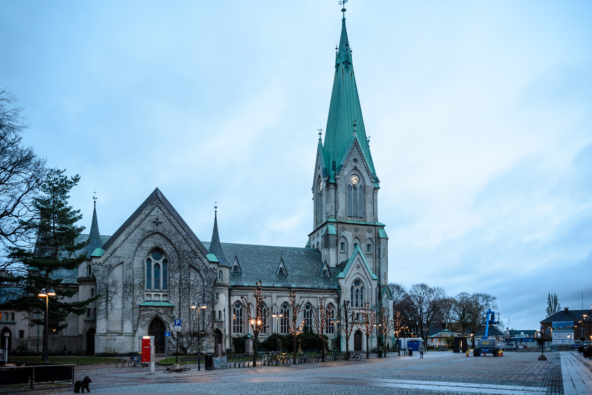 Kristiansand Cathedral in Norway